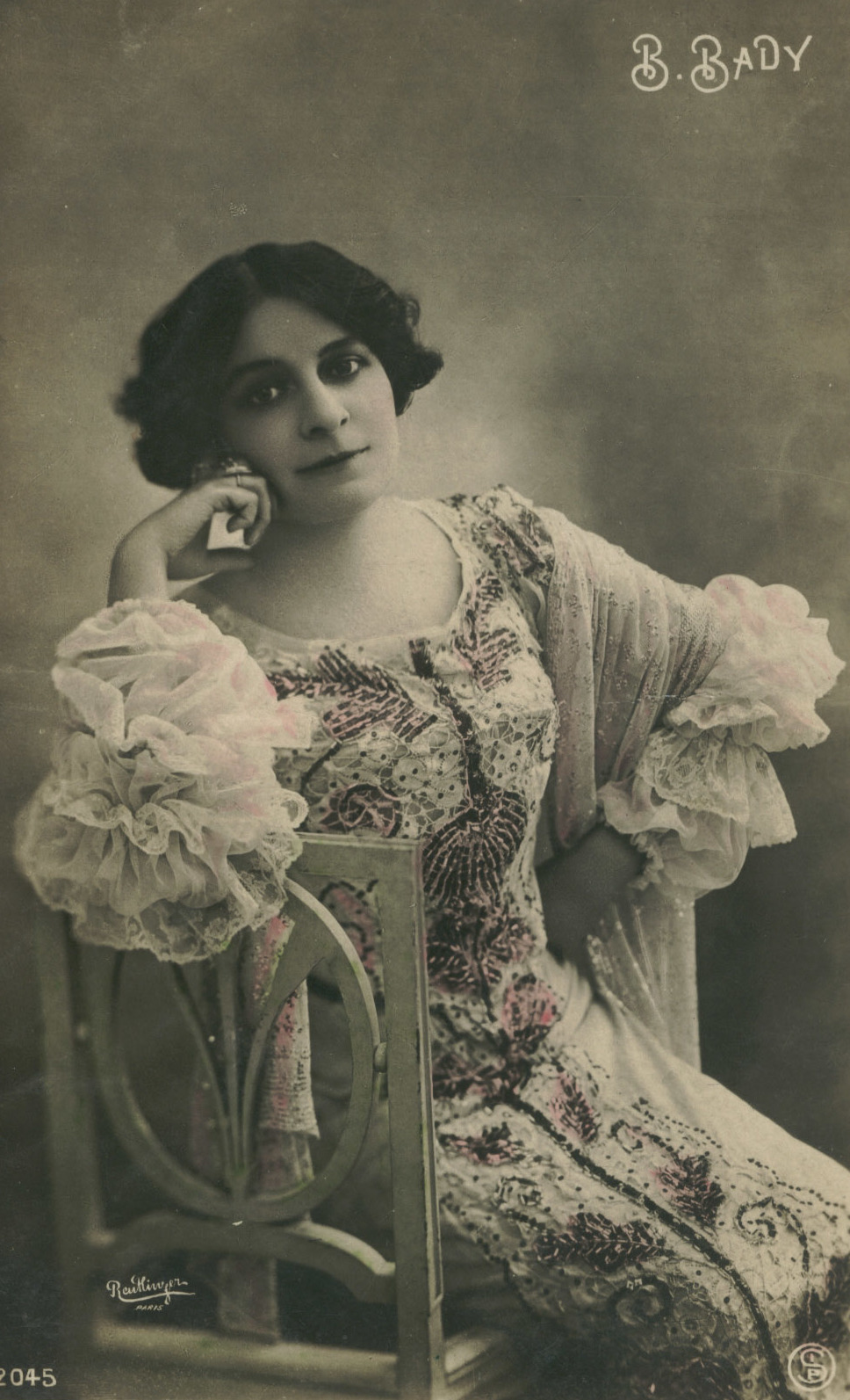 Berthe Bady, SIP 2045, French comedian.